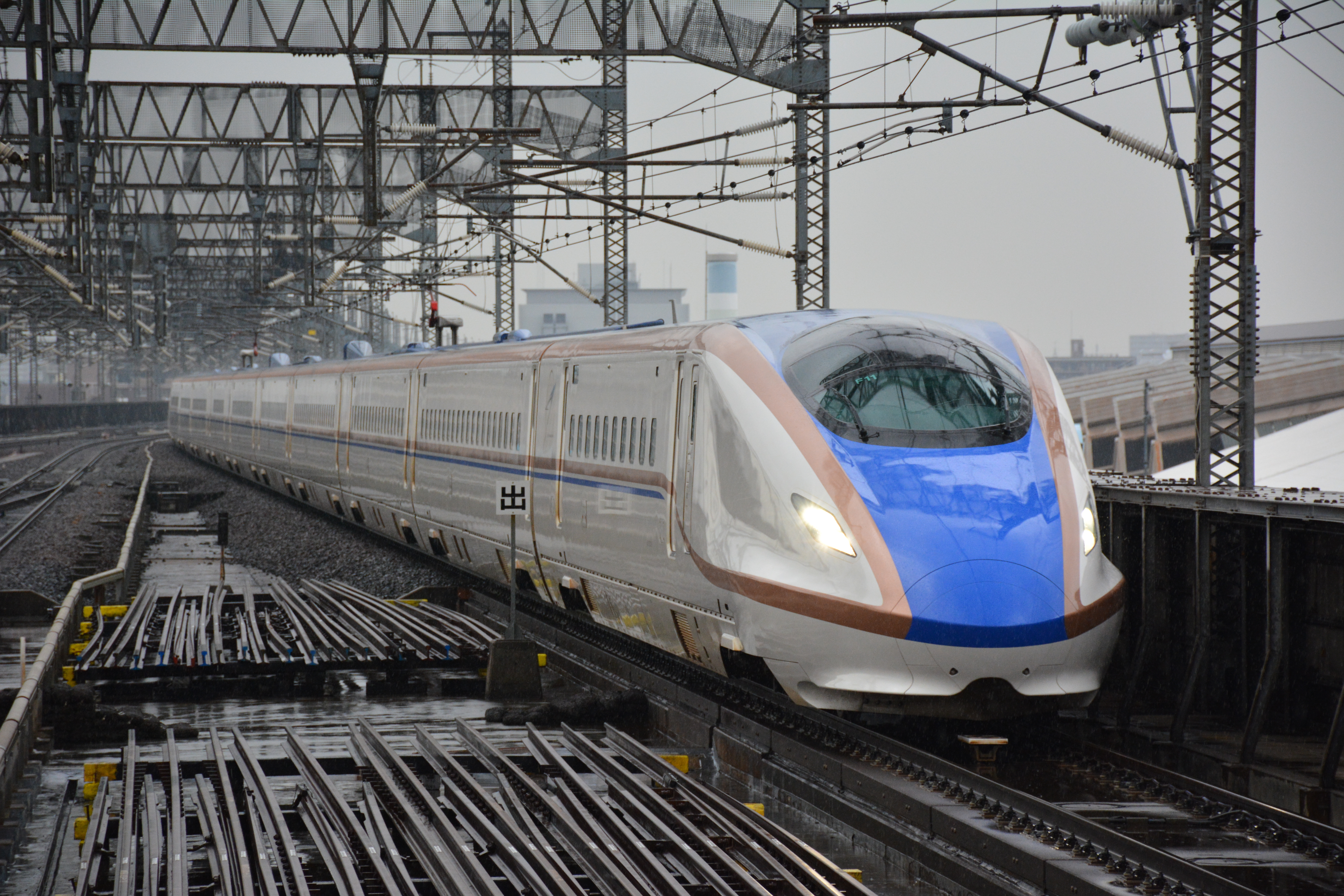 JR East E7 series shinkansen set F11 approaching Omiya Station on the up Asama 642 service from Nagano